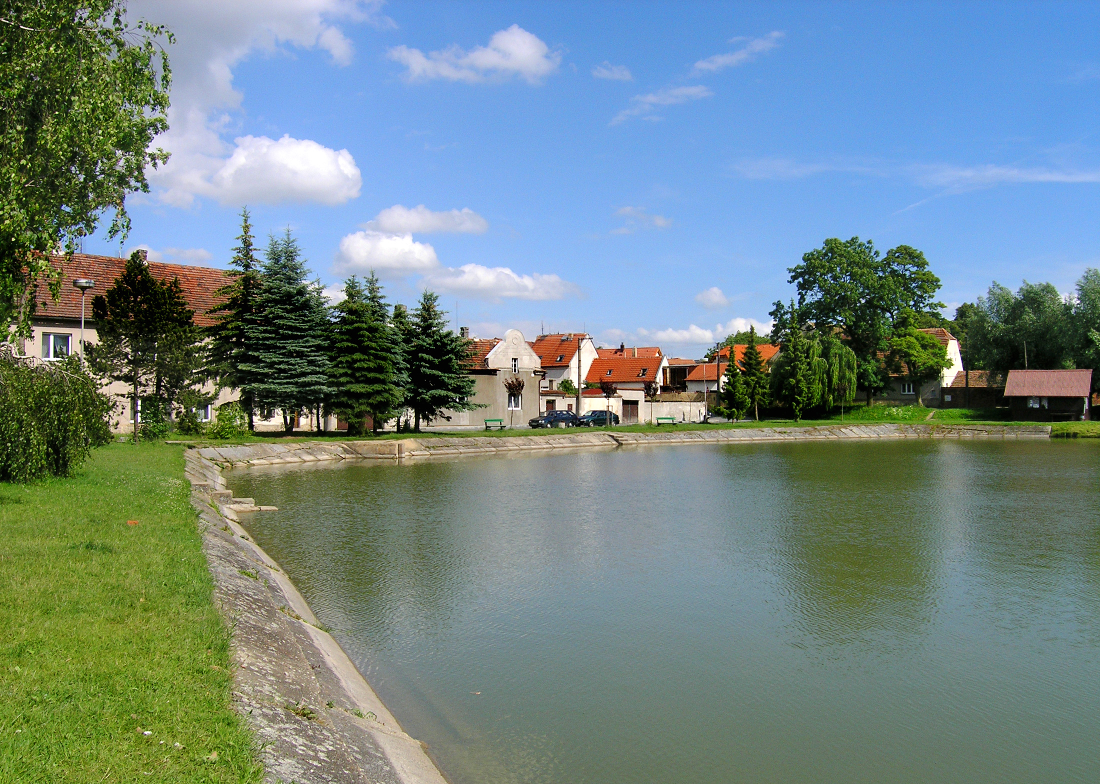 Common pond in Jeneč village, Czech Republic